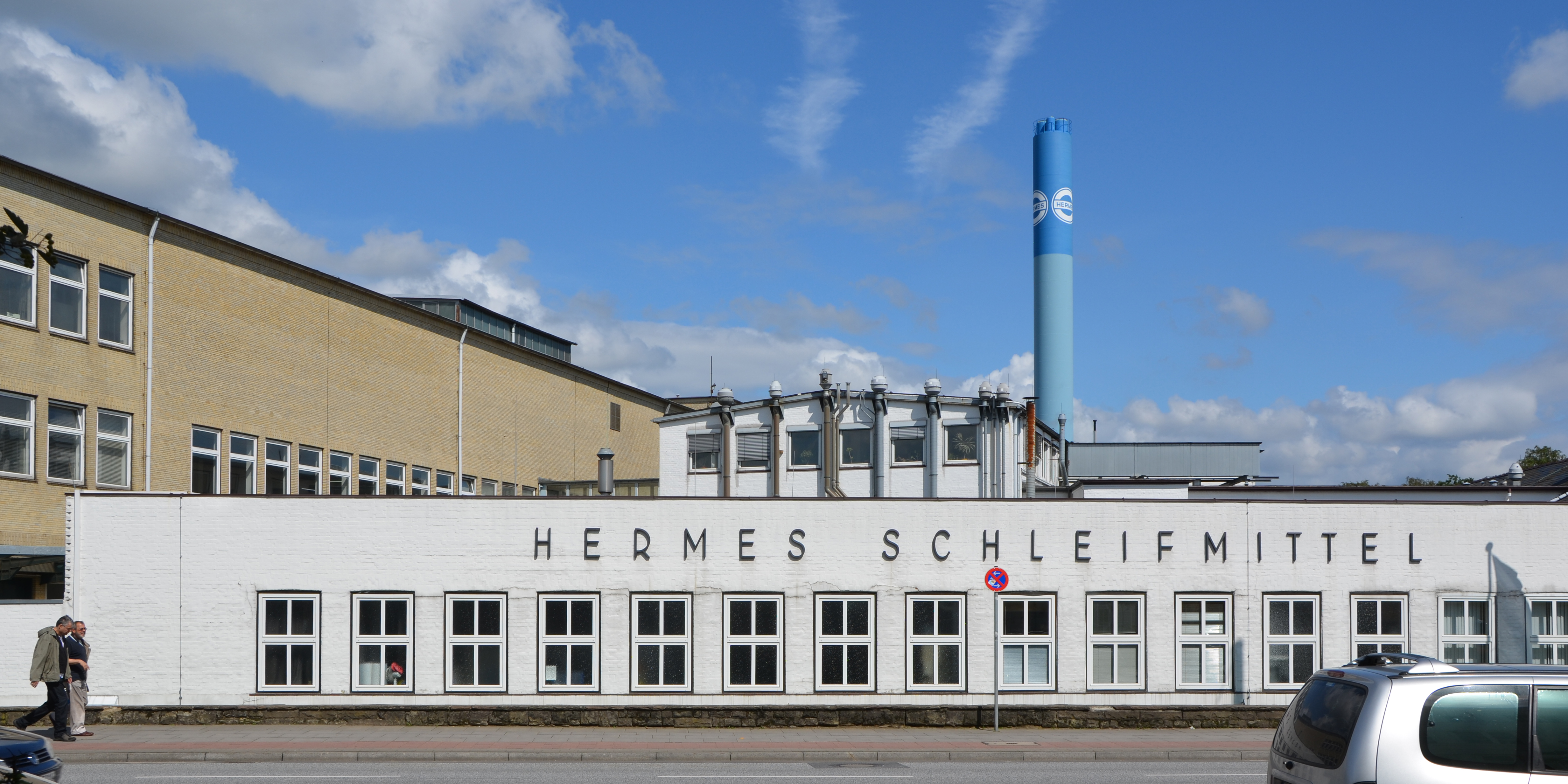 Hermes-Schleifmittel; Hamburg This is a photograph of an architectural monument.